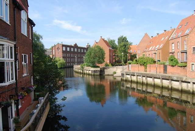 River Wensum from Wensum St Bridge The Ribs of Beef pub can be seen in the left foreground